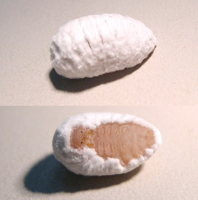 Parasite moth Epipomponia nawai (Lepidoptera:Epipyropidae). The dorsal and ventral views of the same 5th instar larva (about 8mm long) Yokohama, kanagawa, japan.